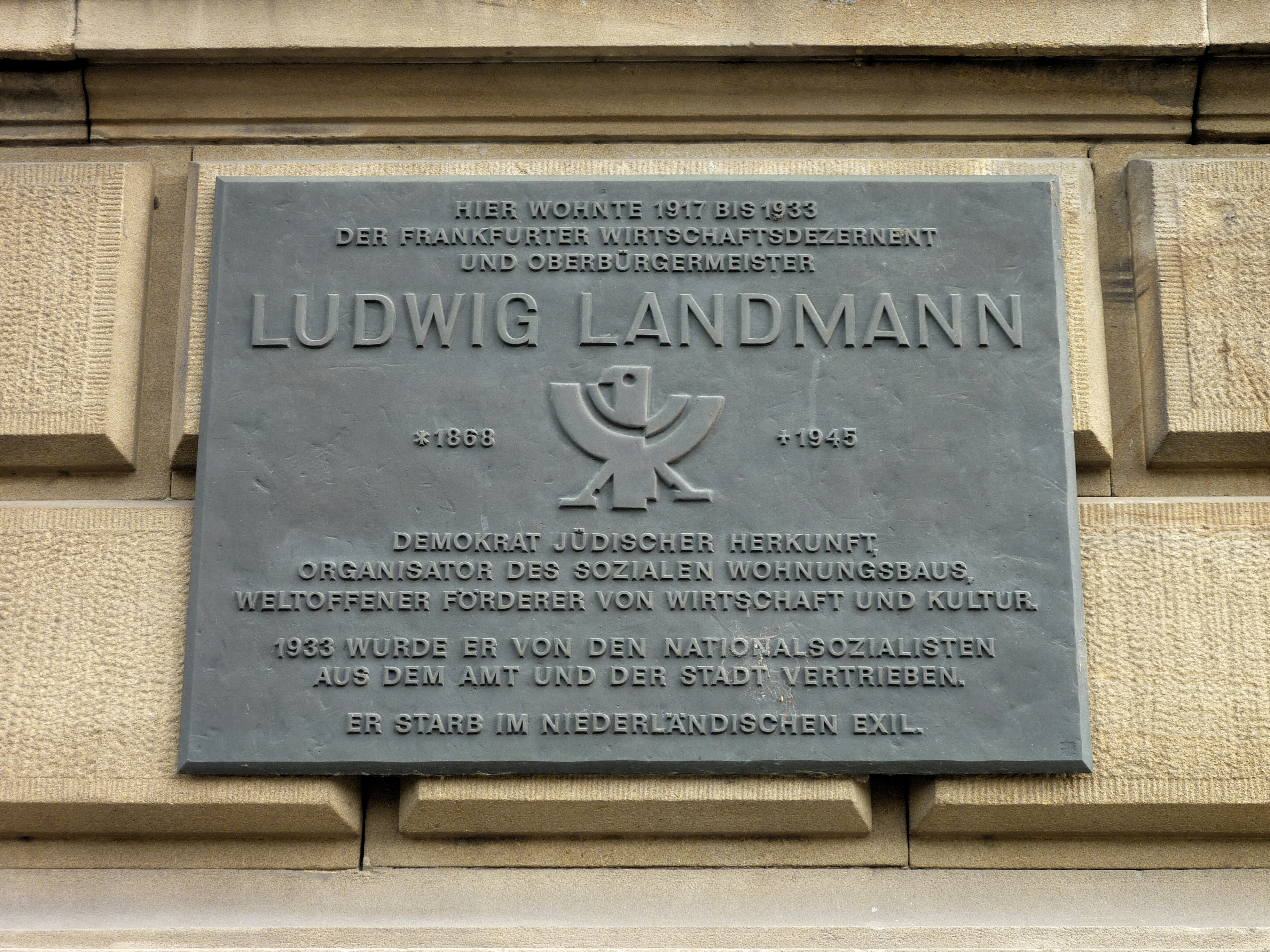 Frankfurt/M., Germany: Plaque commemorating Ludwig Landmann; on the façade of his house on the southern banks of the river Main in Sachsenhausen